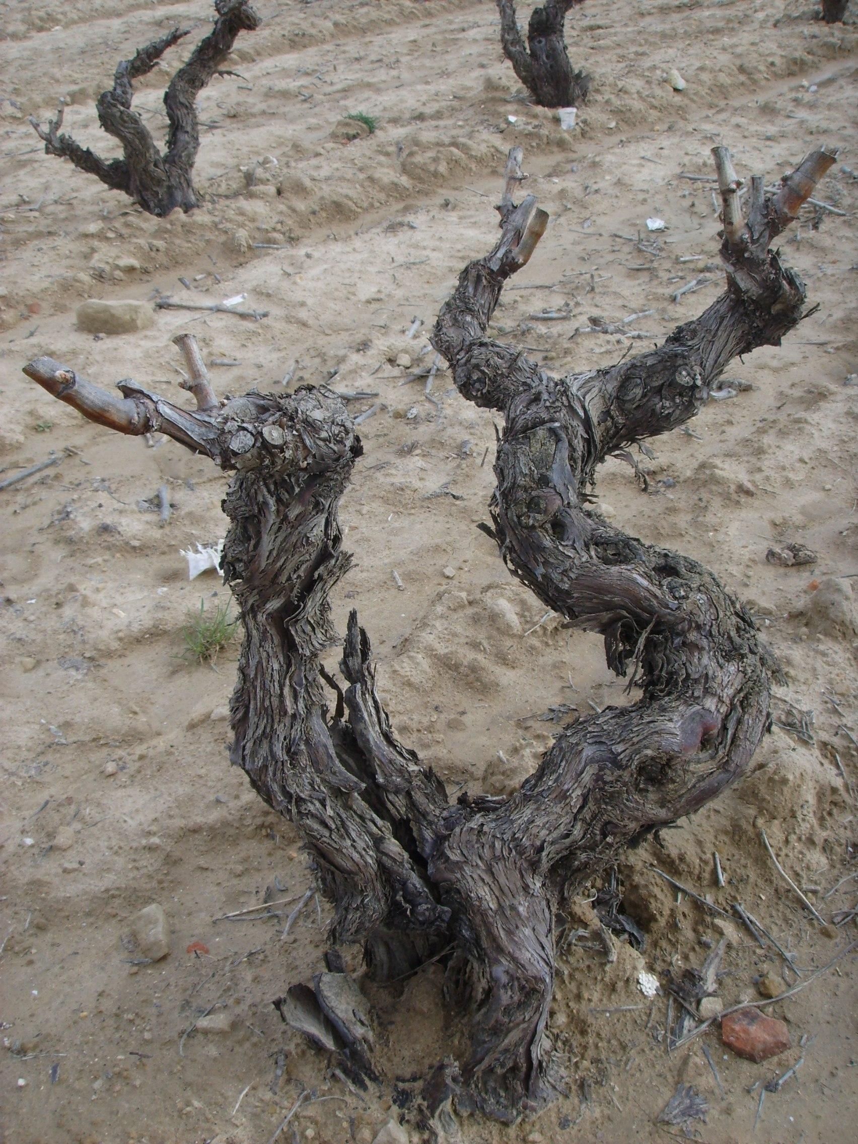 Grapevine in Elciego (Álava, Spain), pruned as typically done in La Rioja